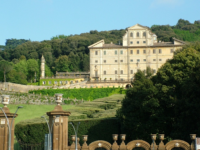 photo taken by the author author Renato Clementi